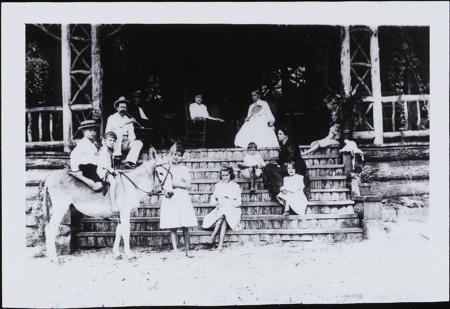 Maria McDonald Jolas (born Maria McDonald) photographed as a child in Louisville, Kentucky. She is pictured seated in the middle of the staircase. Courtesy of the Beinecke Rare Book & Manuscript Library, Yale University.[1]